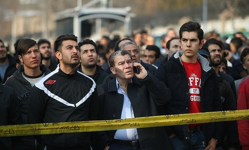 Plasco Building fire